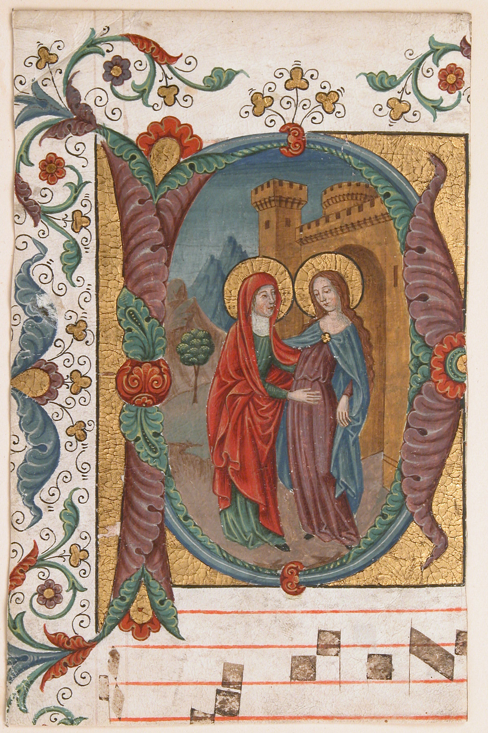 Manuscript Illumination with the Visitation in an Initial D, from a Choir Book. Art forgery attributed to "the Spanish Forger"